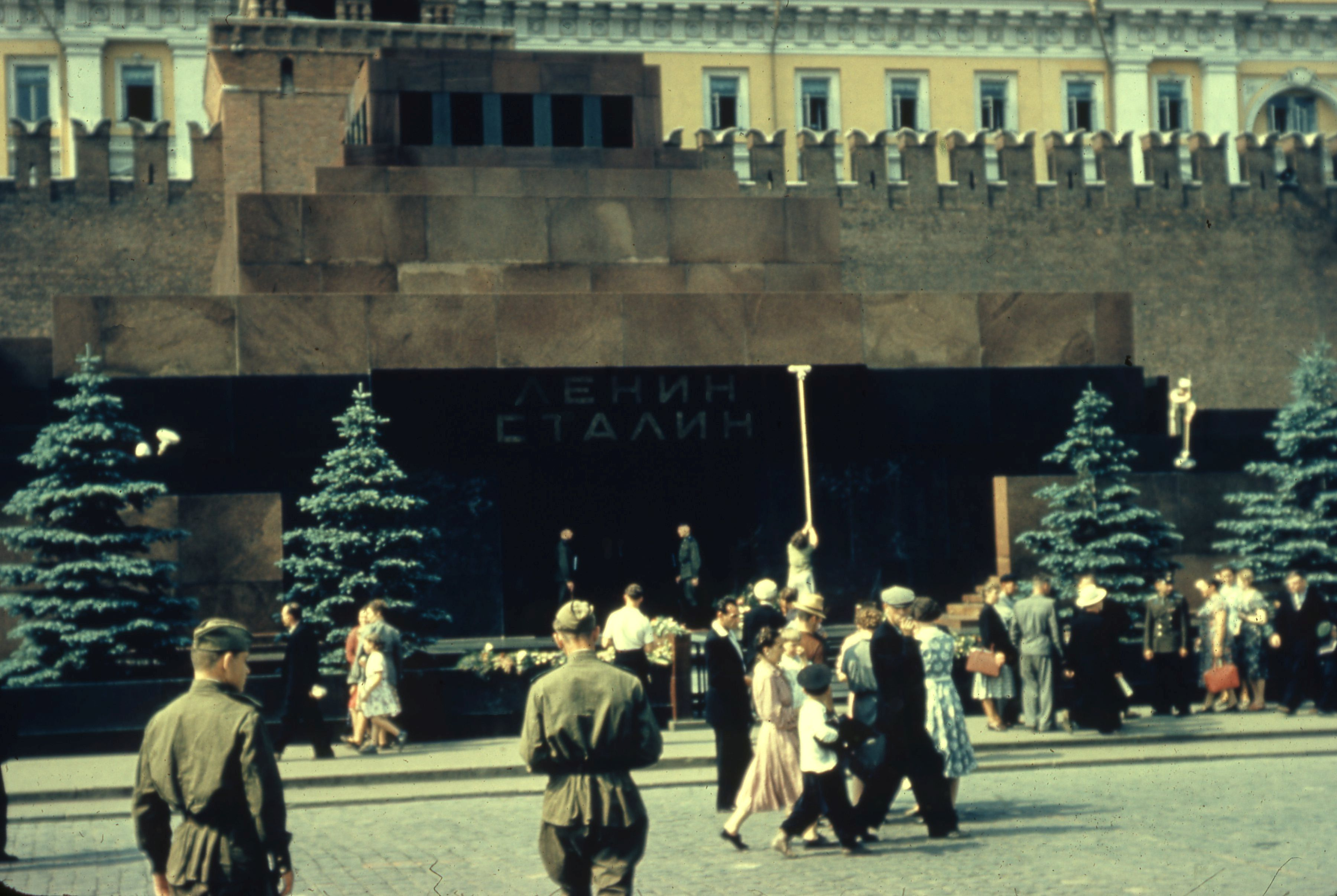 These images were taken by Thomas T. Hammond during his trip to the Soviet Union. This specific image features the Lenin Mausoleum.